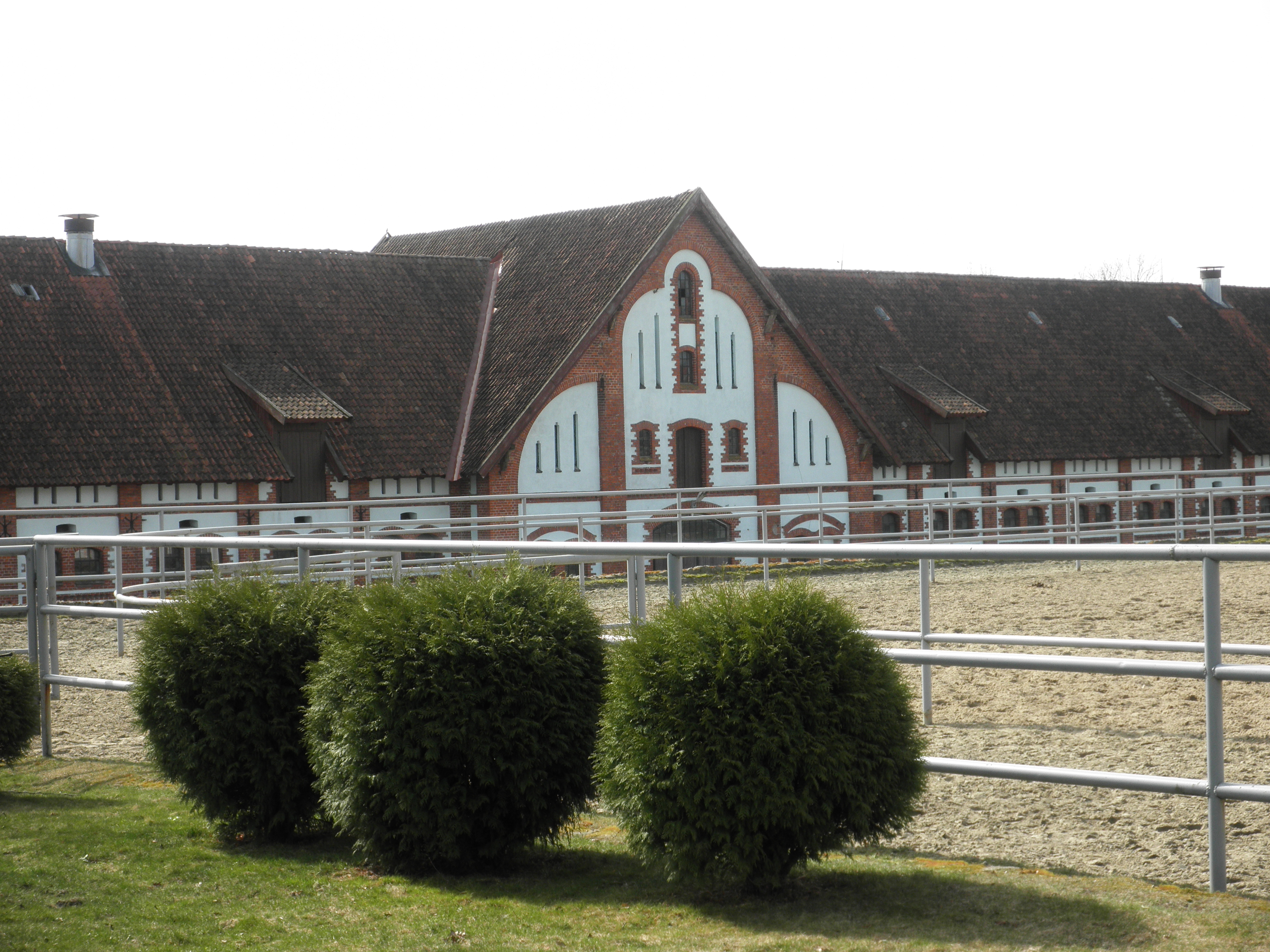 Stud Farm in Georgenburg Majowka in Kaliningrad Oblast